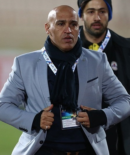 Alireza Mansourian